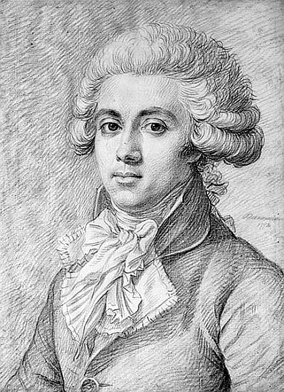 Portrait drawing of Pierre Victurnien Vergniaud.